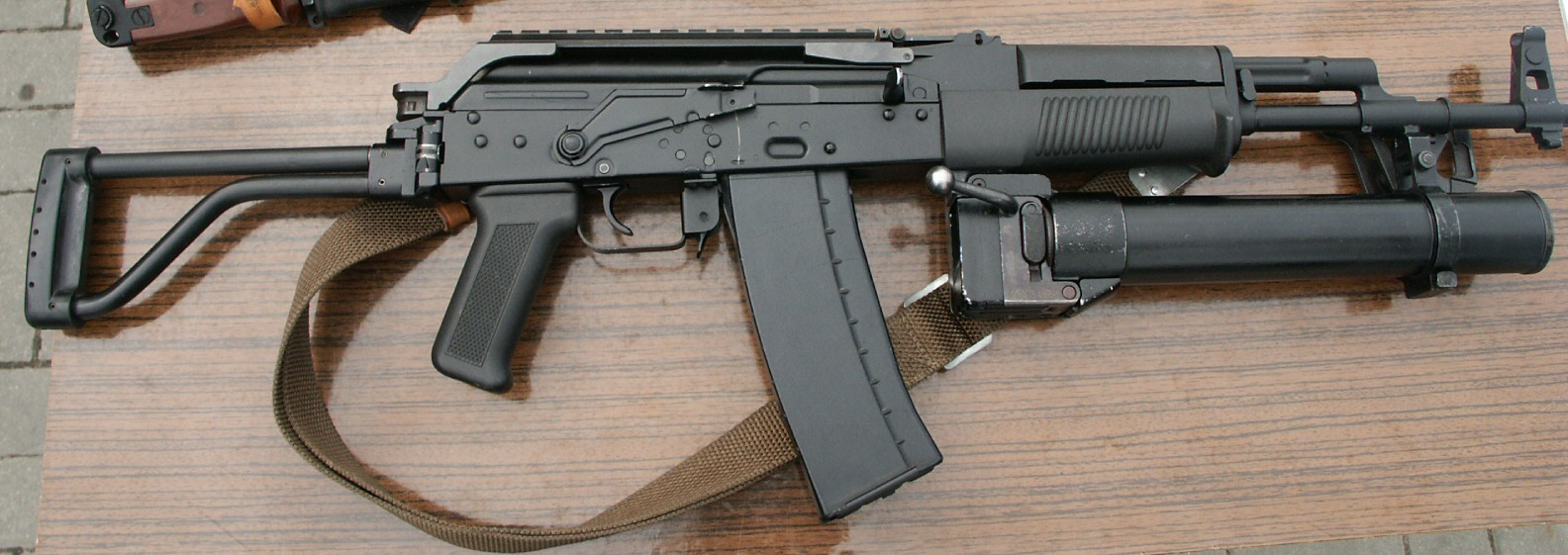 Polish rifle wz.96 Beryl, with 40 mm Pallad grenade launcher